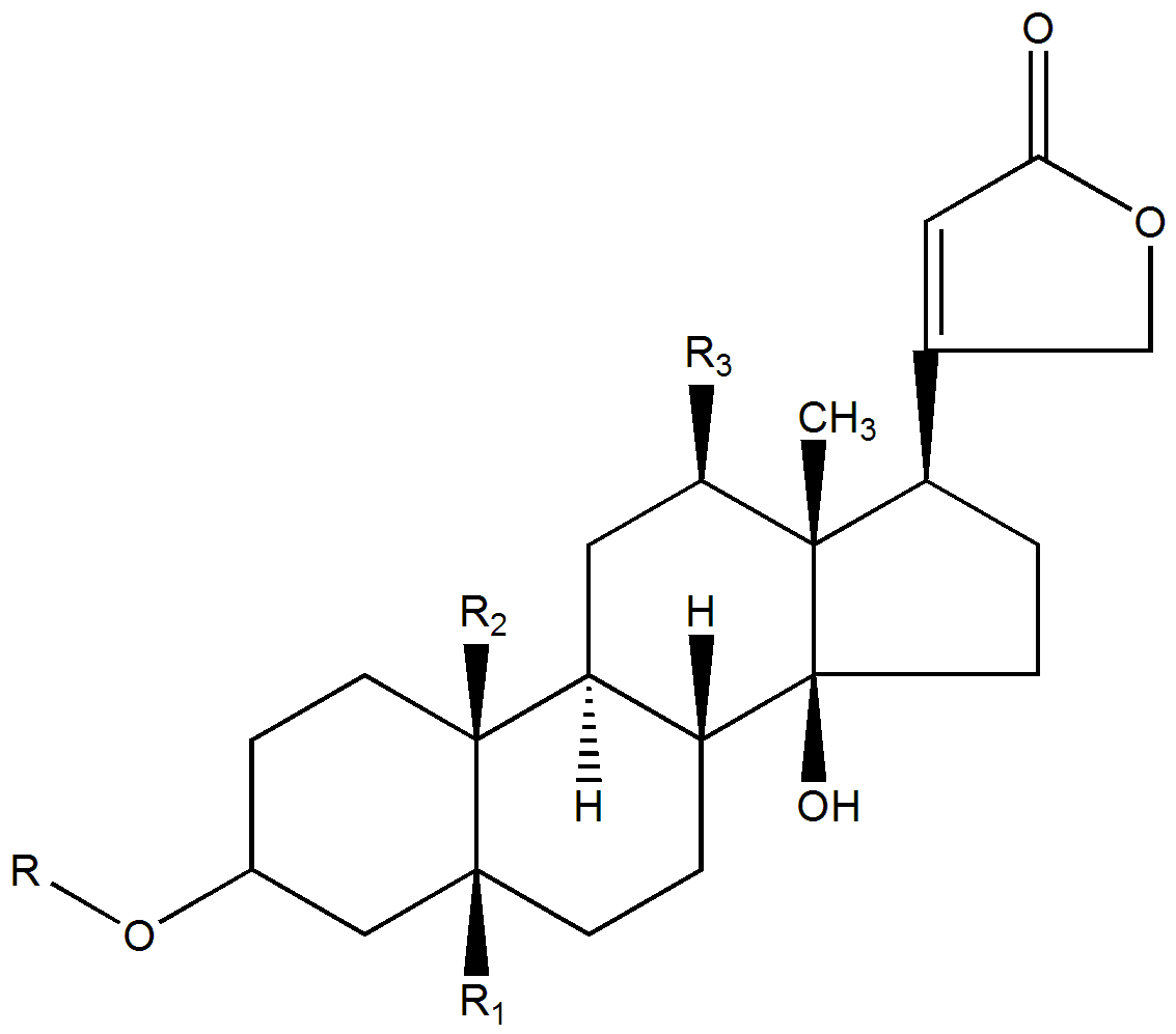 Cardiac glycosides structer